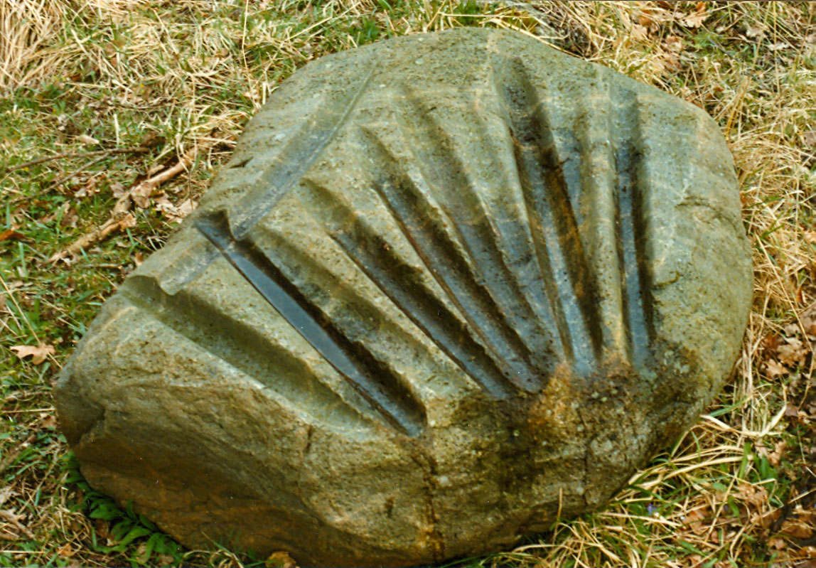 Grooves from Hörsne, Gotland, Sweden.